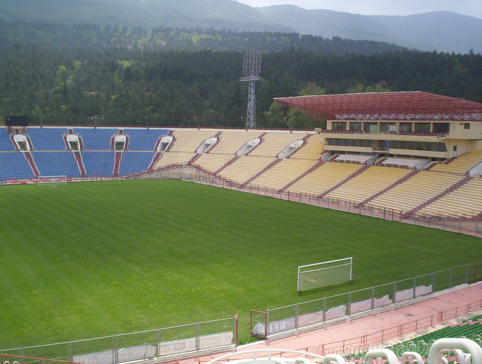 "Dinamo Arena" Georgia - Spain FIFA World Cup 2014 Qualifier - 11.09.12